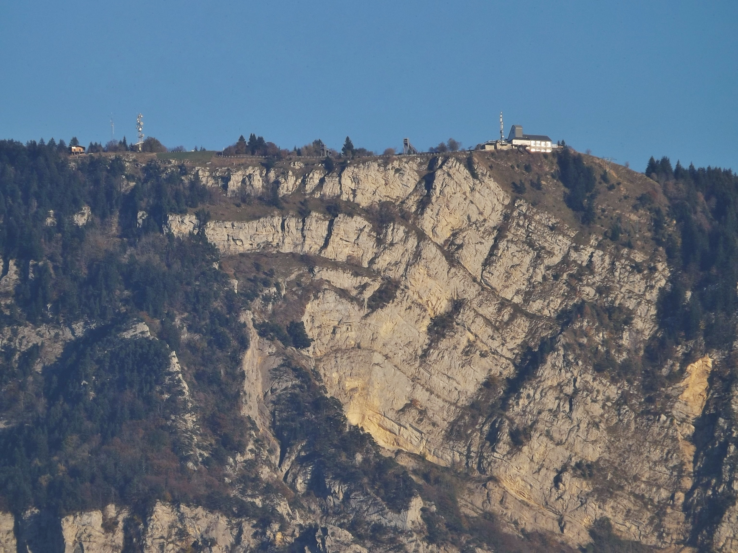 Sight, from Aix-les-Bains, of the top of the mont Revard mount, in the Alps, Savoie, France.